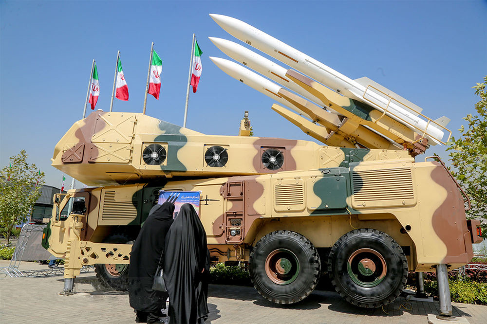 The specific 3rd Khordad TELAR that shot down an American RQ-4 drone, with kill marking on side. at IRGC 2019 drone showcase "Hunting Vultures."